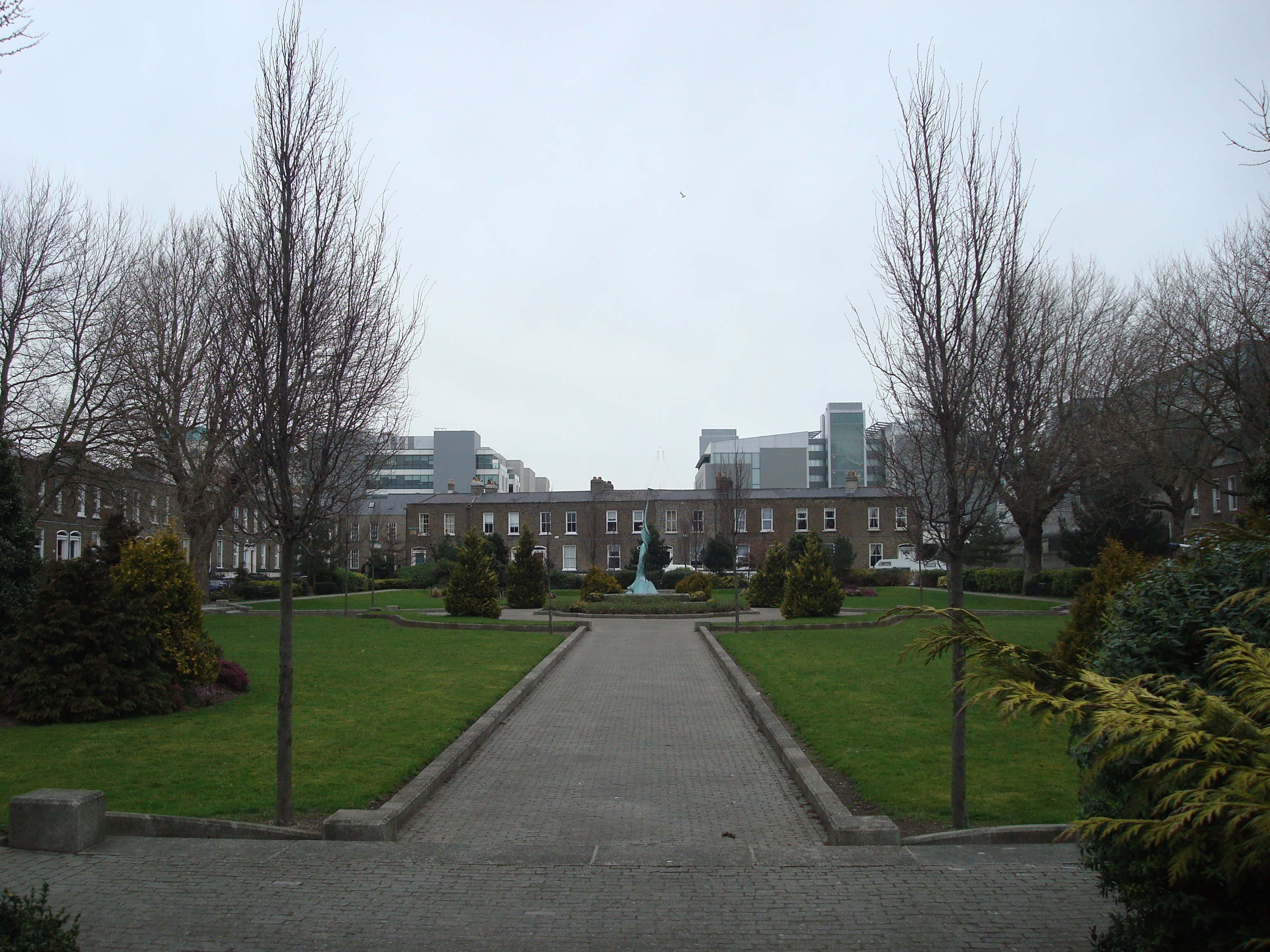 Pearse Square, Dublin